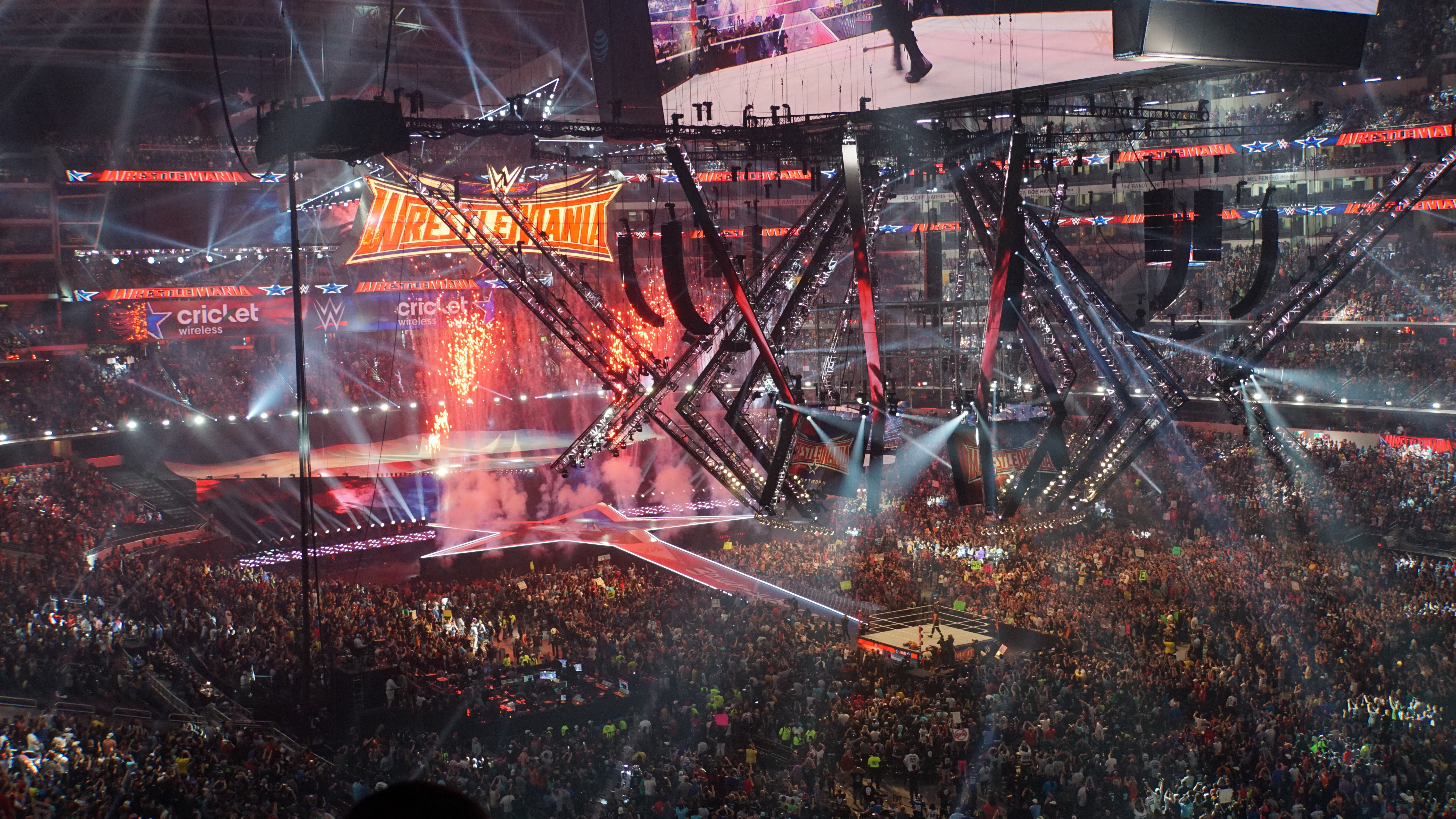 WrestleMania 32 was the thirty-second annual WrestleMania professional wrestling pay-per-view (PPV) event produced by WWE. It took place on April 3, 2016, at AT&T Stadium in Arlington, Texas. Twelve matches were contested on the card (with three matches occurring on the WrestleMania Kickoff pre-show - two airing live on the USA Network, which televised the second hour of the pre-show). Roman Reigns def. (pin) Triple H (c) (in 27:10) For : WWE World Heavyweight Championship (title change) Rating : ***1/4